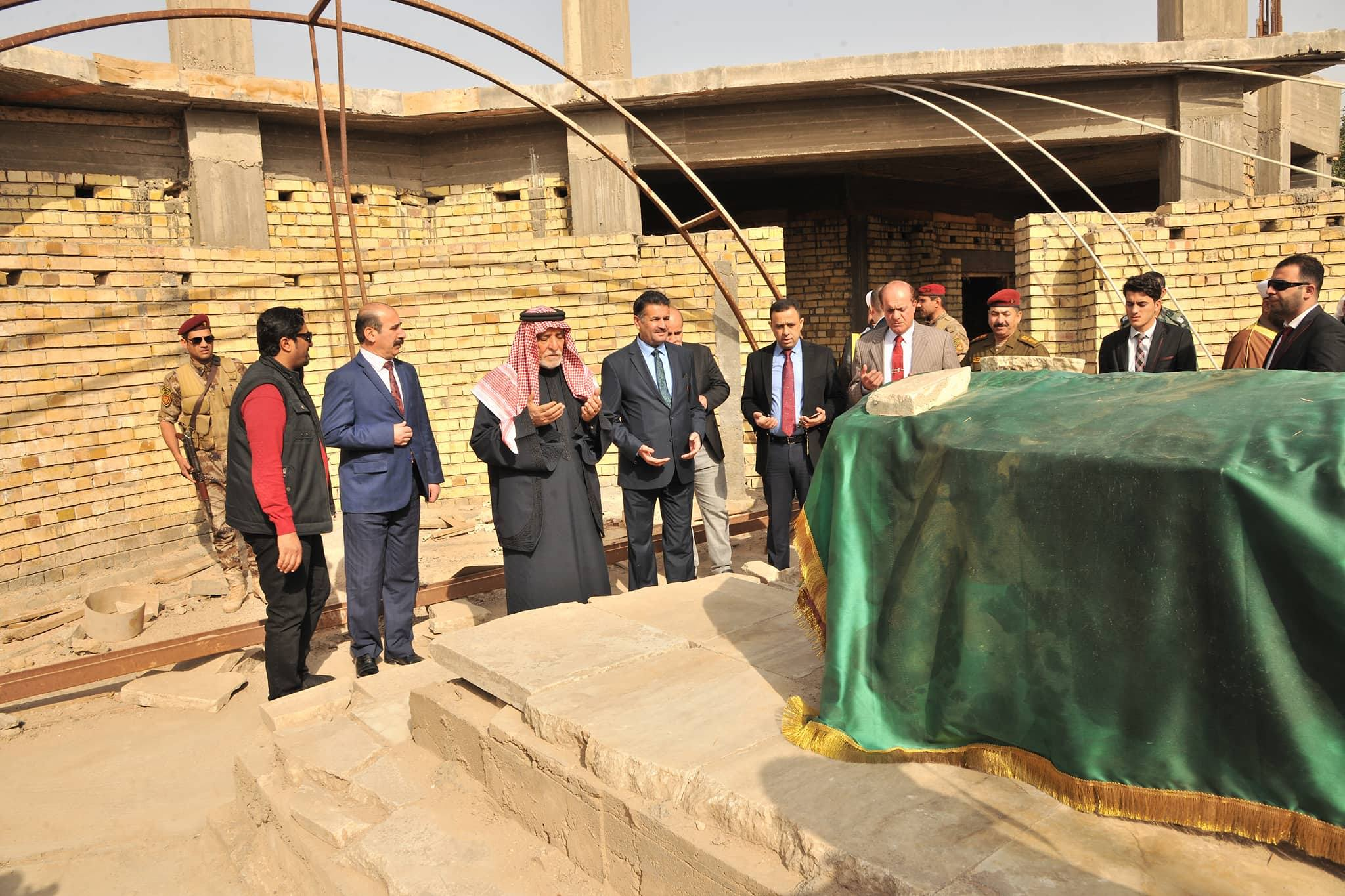 Tomb of Talha Bin Ubaydallah at Basra, Iraq